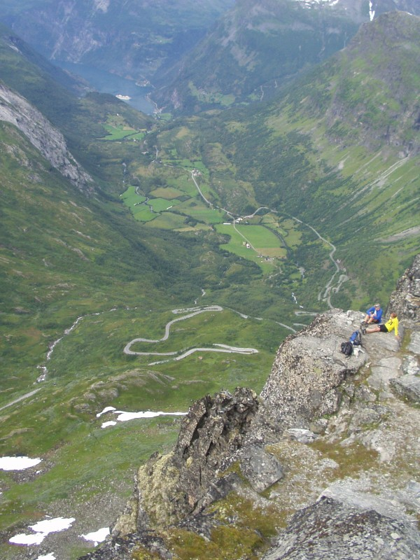 Description: Geirangerfjord vom Dalsnibba Capture date: 2005-08-21 Photographer: sgm